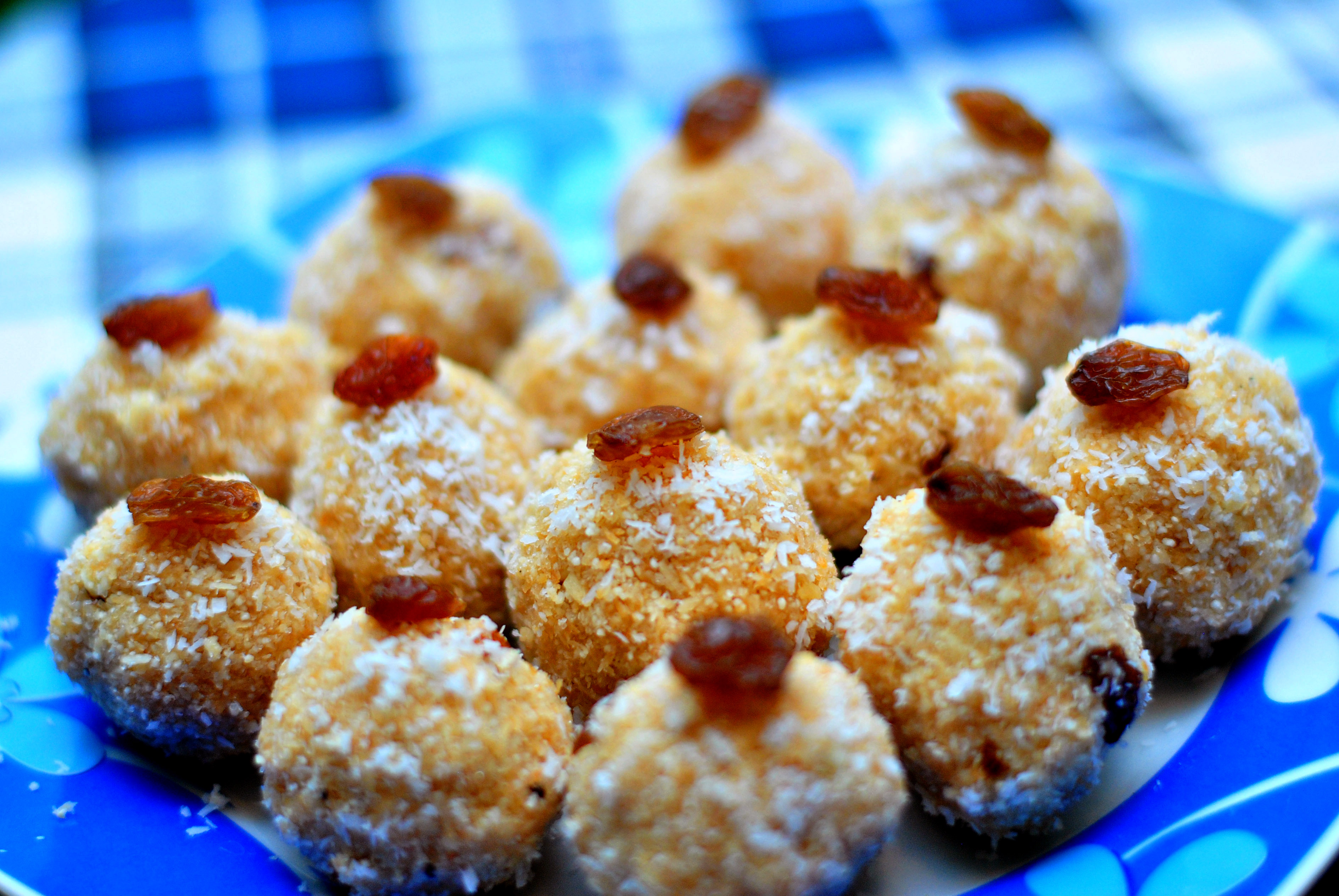 Semolina Laddu or Sooji Laddu is a traditional sweet dish which use to be prepared across most of the states of India especially during festivals or celebrations.